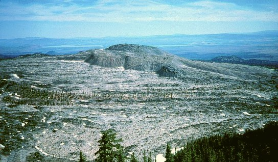 Glass Mountain from Medicine Lake caldera rim, northern California